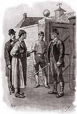 Sherlock Holmes in "Silver Blaze", which appeared in The Strand Magazine in December, 1892. Original caption was "BE OFF!"